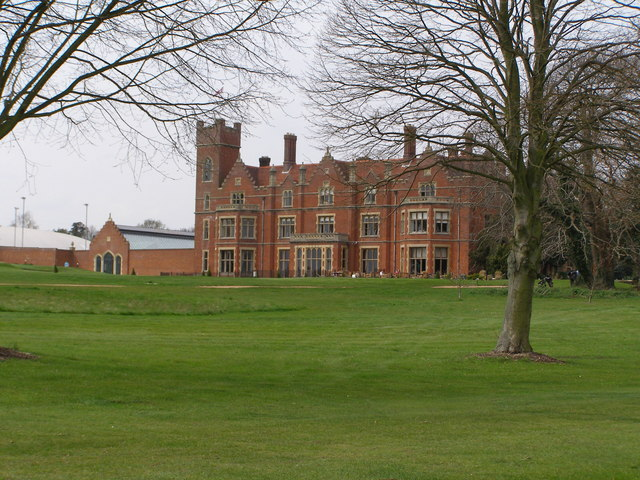 Hertfordshire Golf and Country Club House The club House is a grade ii listed building formerly known as Broxbournebury Mansion.